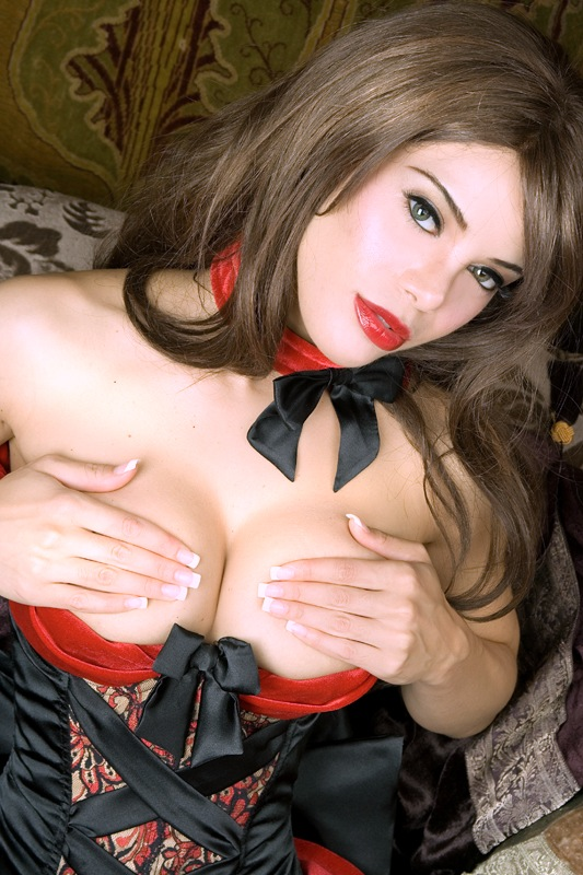 Actress Mason Marconi with "handbra"